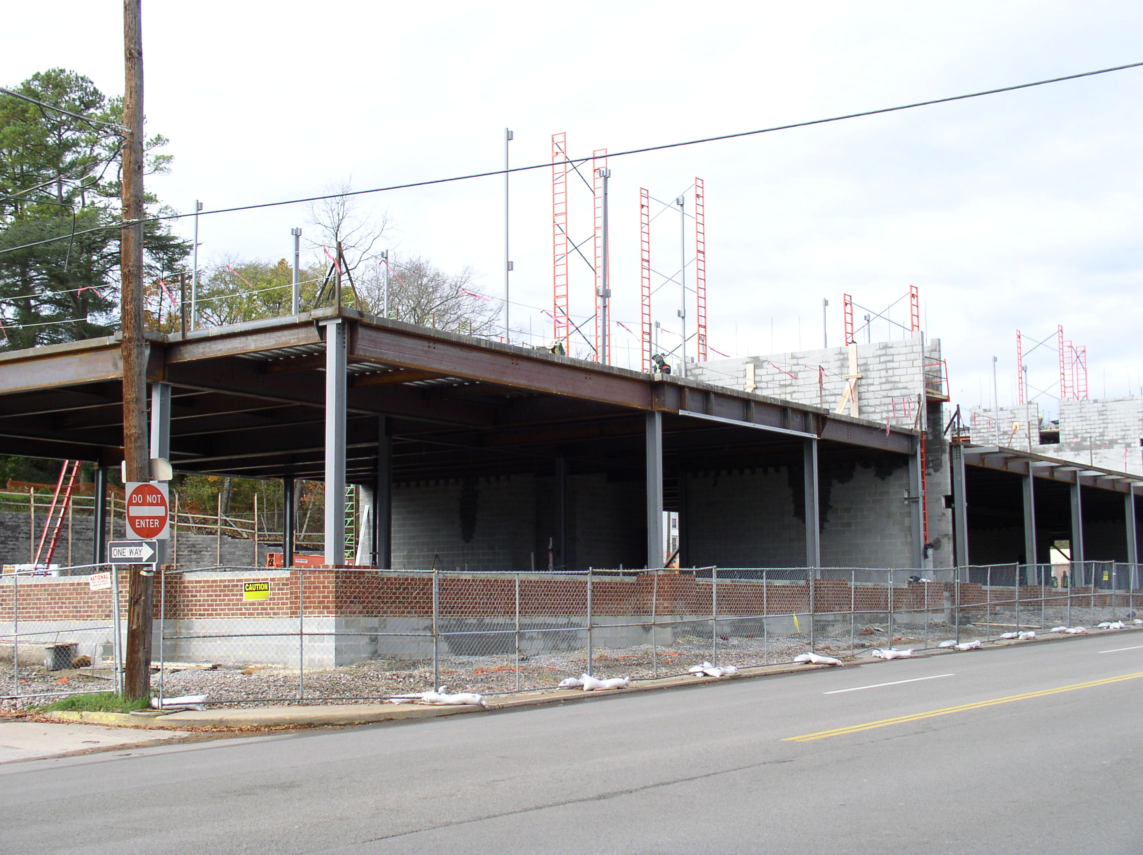 A building under construction in Farmville, Virginia. The outer shell of the building will be frame construction, but the firewalls subdividing the building into thirds are clearly visible.